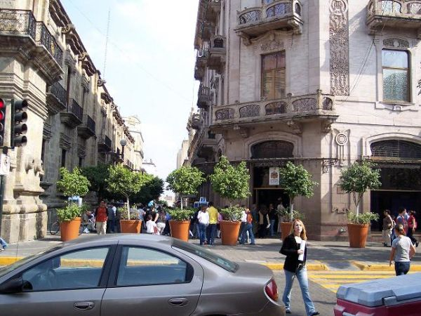 Description: Pedro Moreno Street Source: Own Job Date: 2005